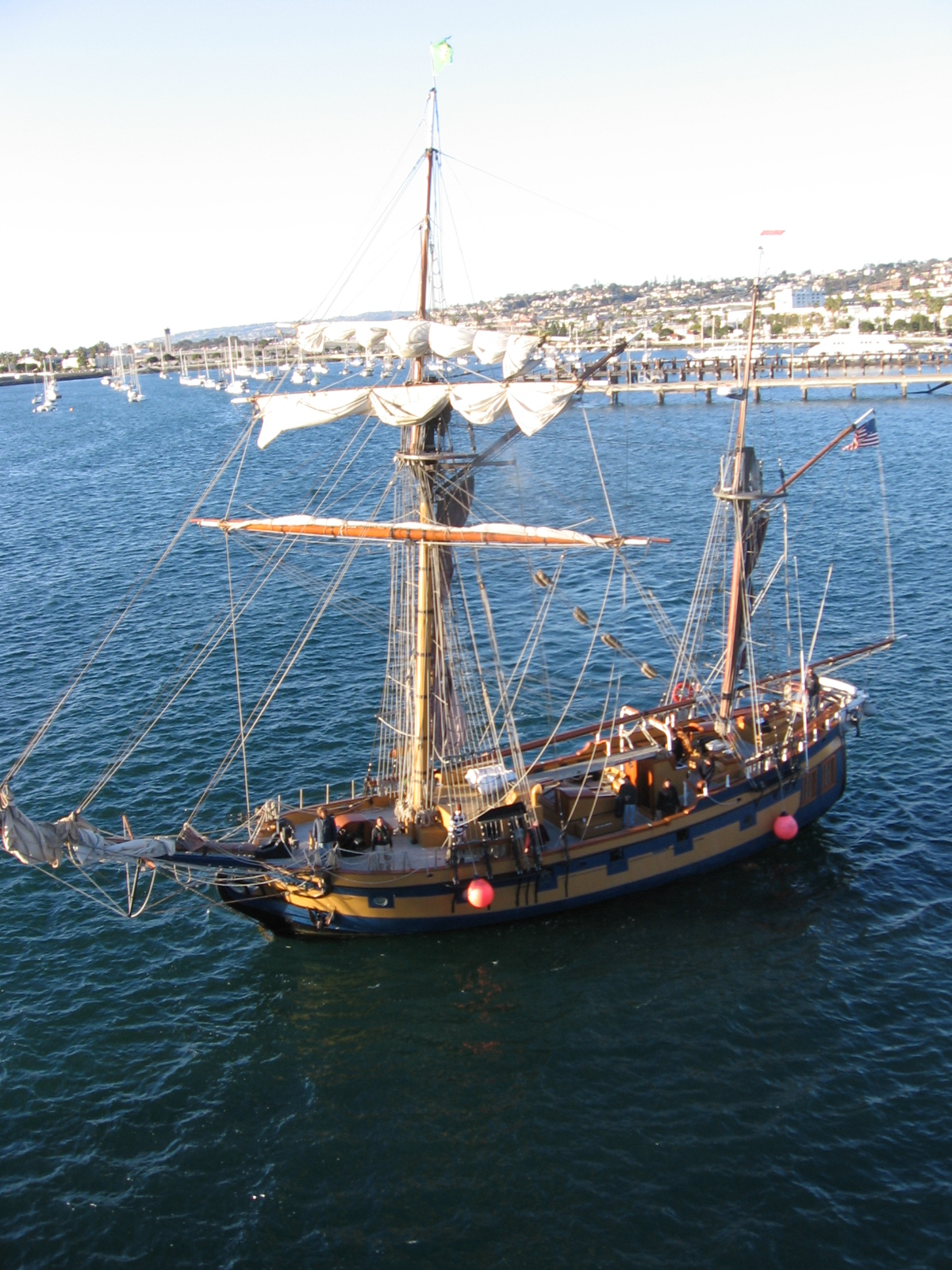 Sailing vessel, Hawaiian Chieftain in her current colors. Taken from Lady Washington